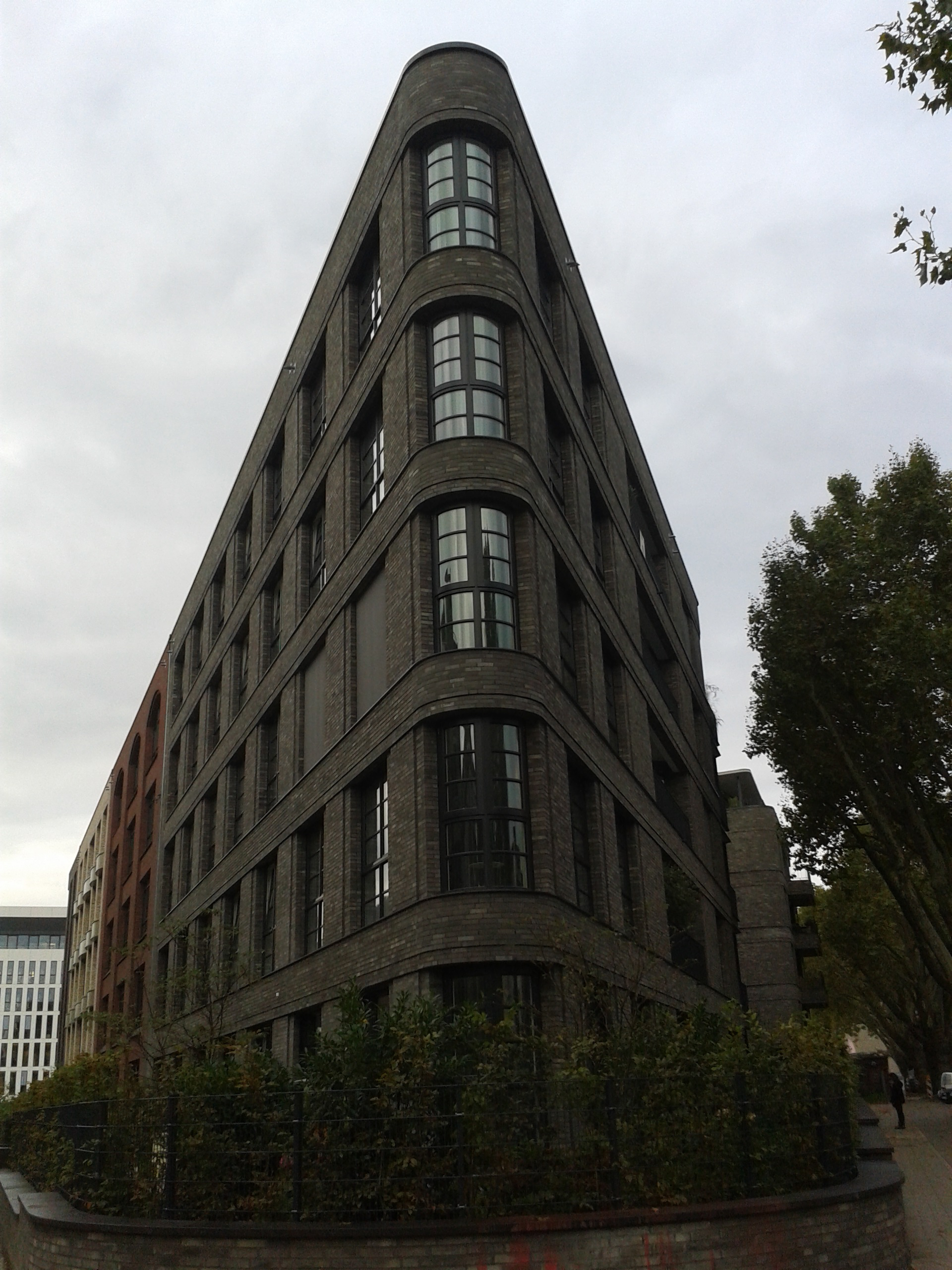 Flatiron Building in the New York Village of Düsseldorf-Pempelfort, Germany